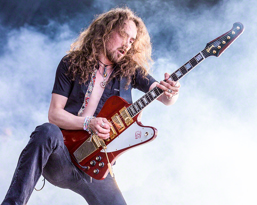 Skjalg Raaen performs with Åge Aleksandersen and Sambandet at the main stage during Stavernfestivalen in Stavern on 08 July 2016. Lineup:Åge Aleksandersen (guitar / vocal)Skjalg Raaen (guitar)Steinar Krokstad (drums)Morten Skaget (bass)Gunnar Pedersen (guitar)Terje Tranaas (keyboard)Bjørn Røstad (baritone saxophone)Unidentified (trumpet)Unidentified (trombone)Unidentified (tenor saxophone)